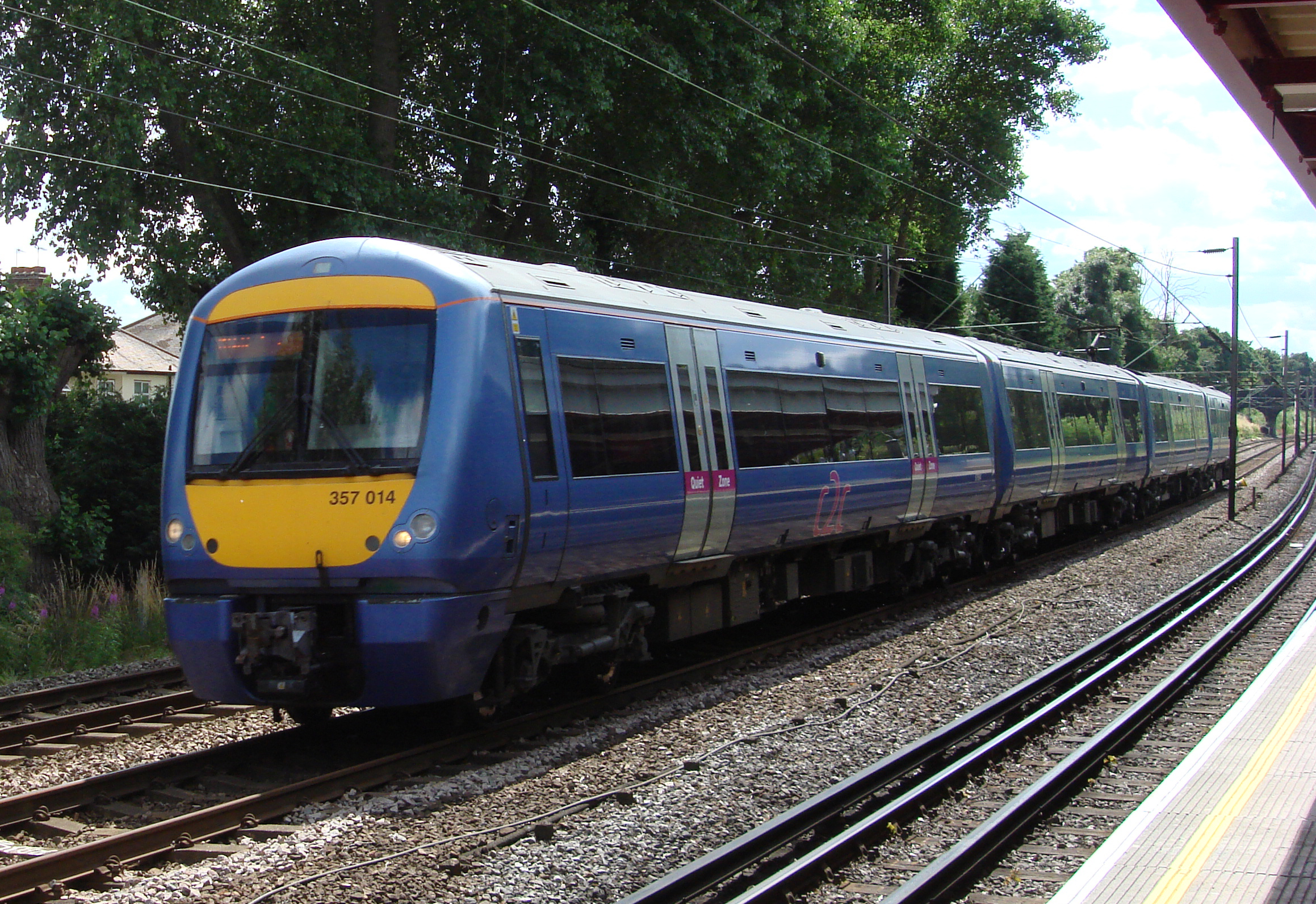 357014 passing Upminster Bridge tube station